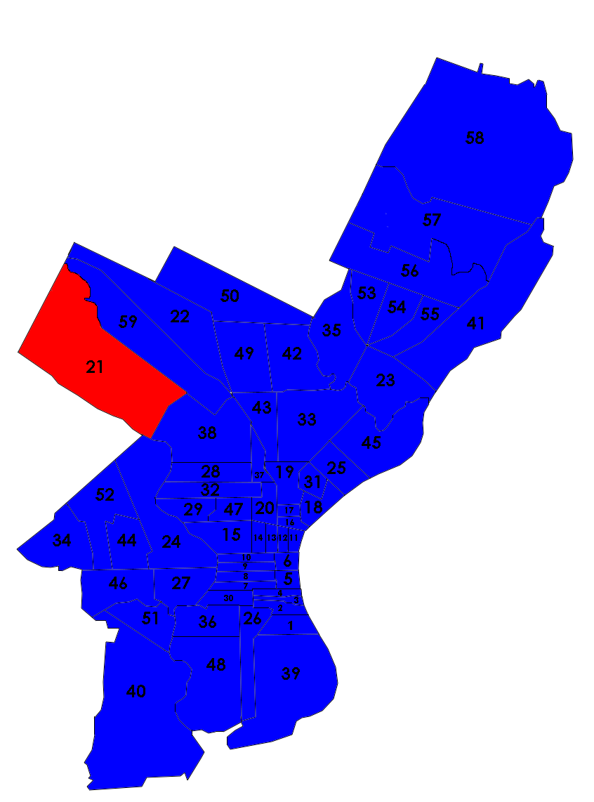 1959 Philadelphia mayor election by ward